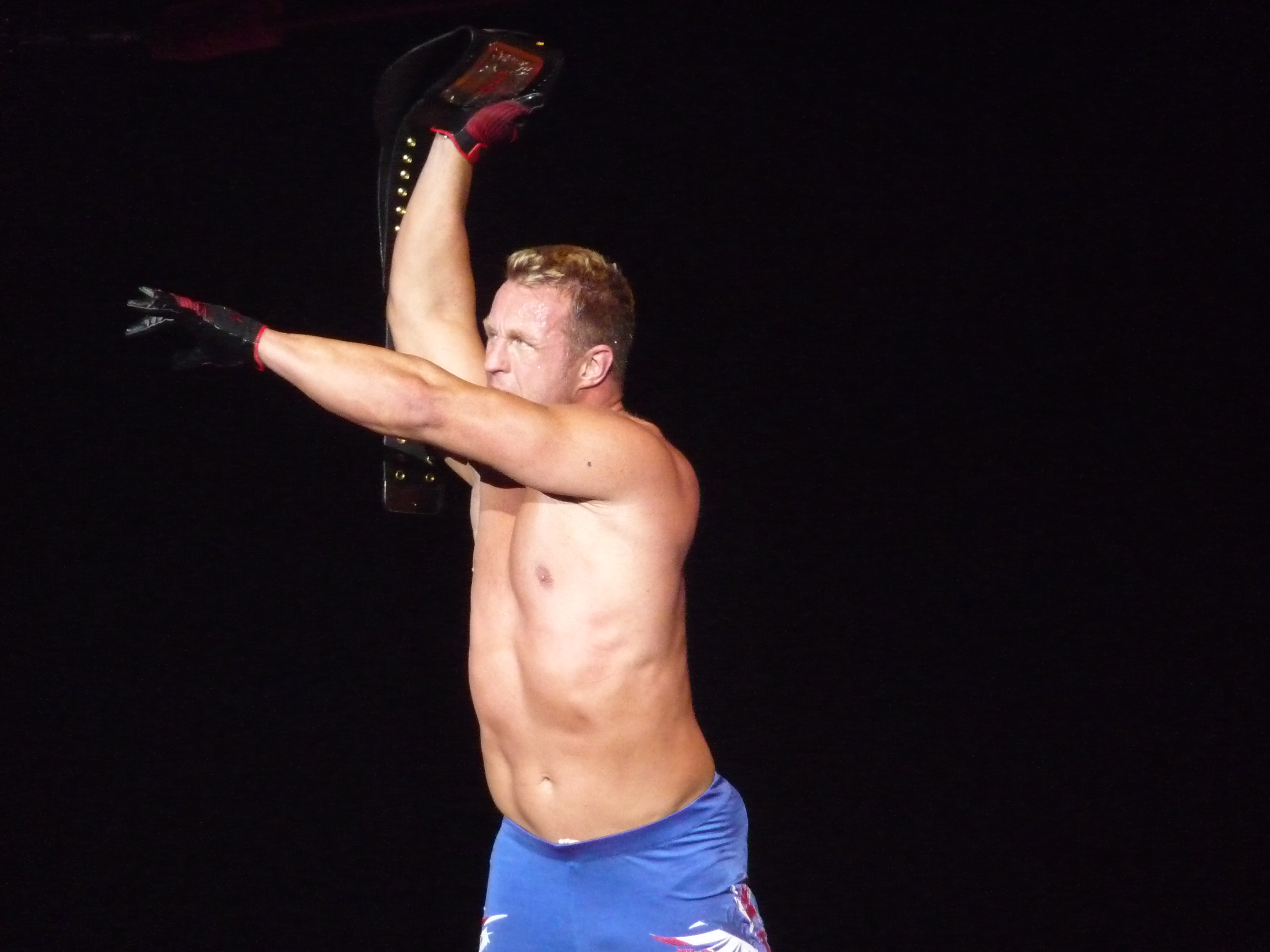 Professional wrestler Doug Williams with the TNA X-Division Championship at a TNA show in Wembley Arena on January 30, 2010.